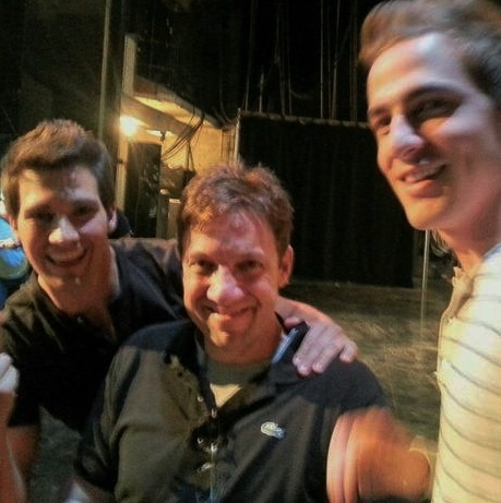 Scott Fellows con Big Time Rush